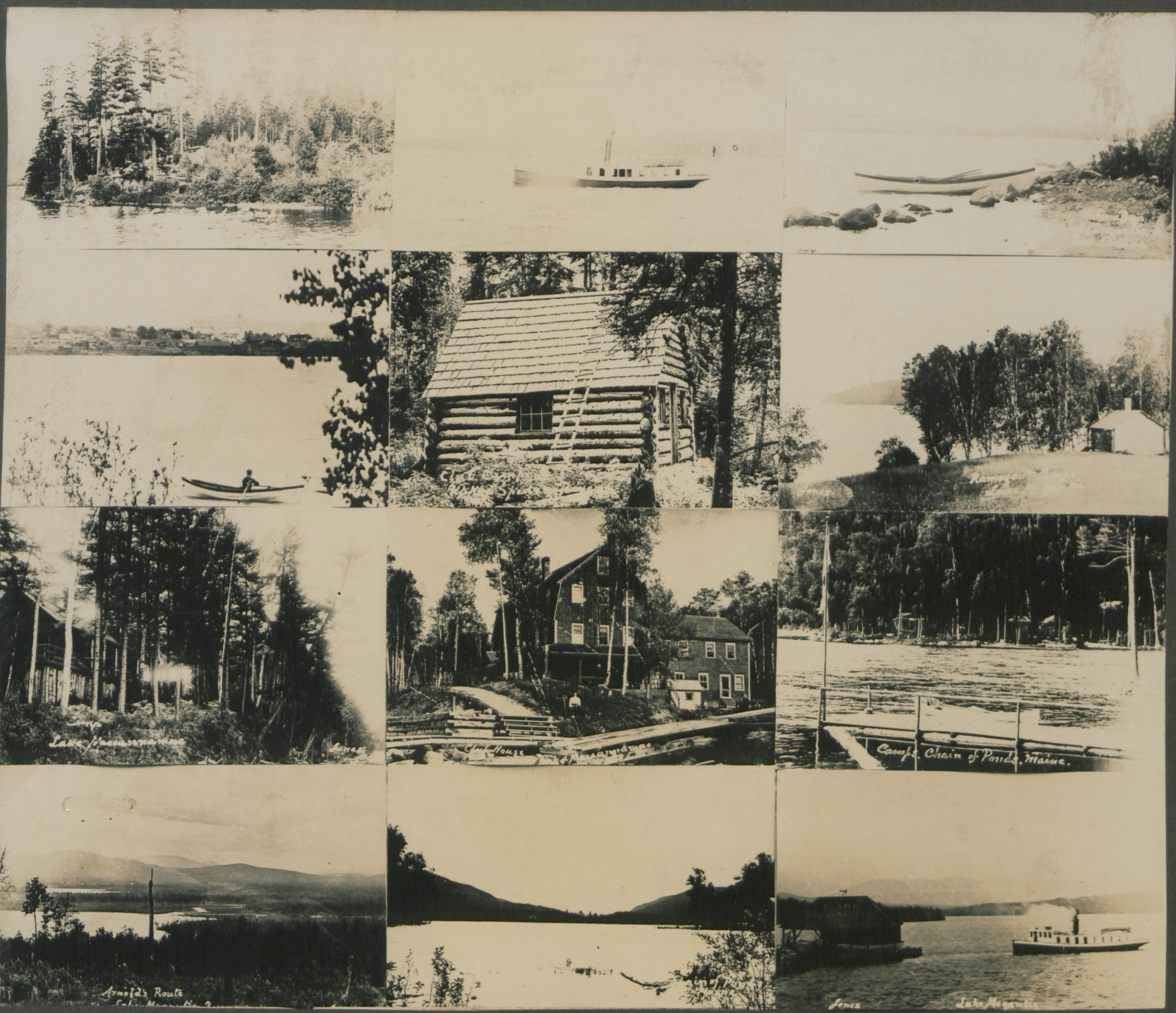 Group of 12 views of Club Preserve, Lake Meccannainac and vicinity. No. 3994. 25th August, 1913.